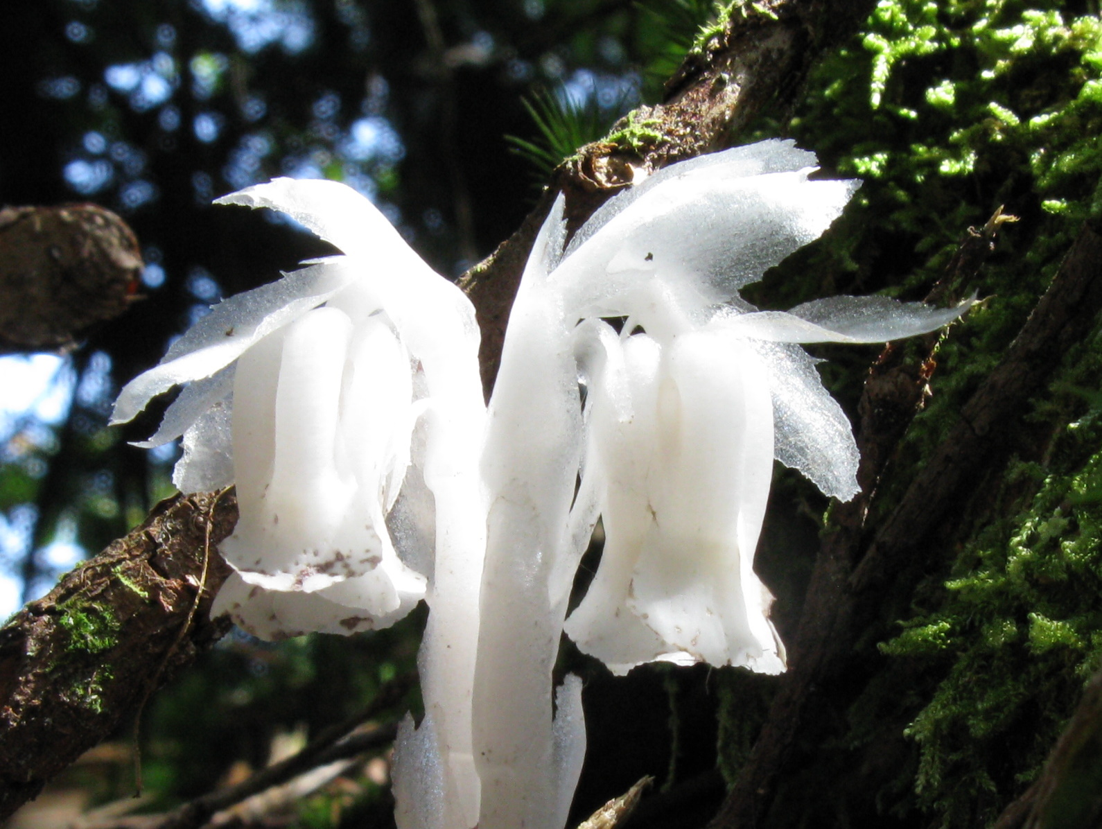 Monotropa uniflora, Indian-pipe, on Mount Mansfield. Vermont